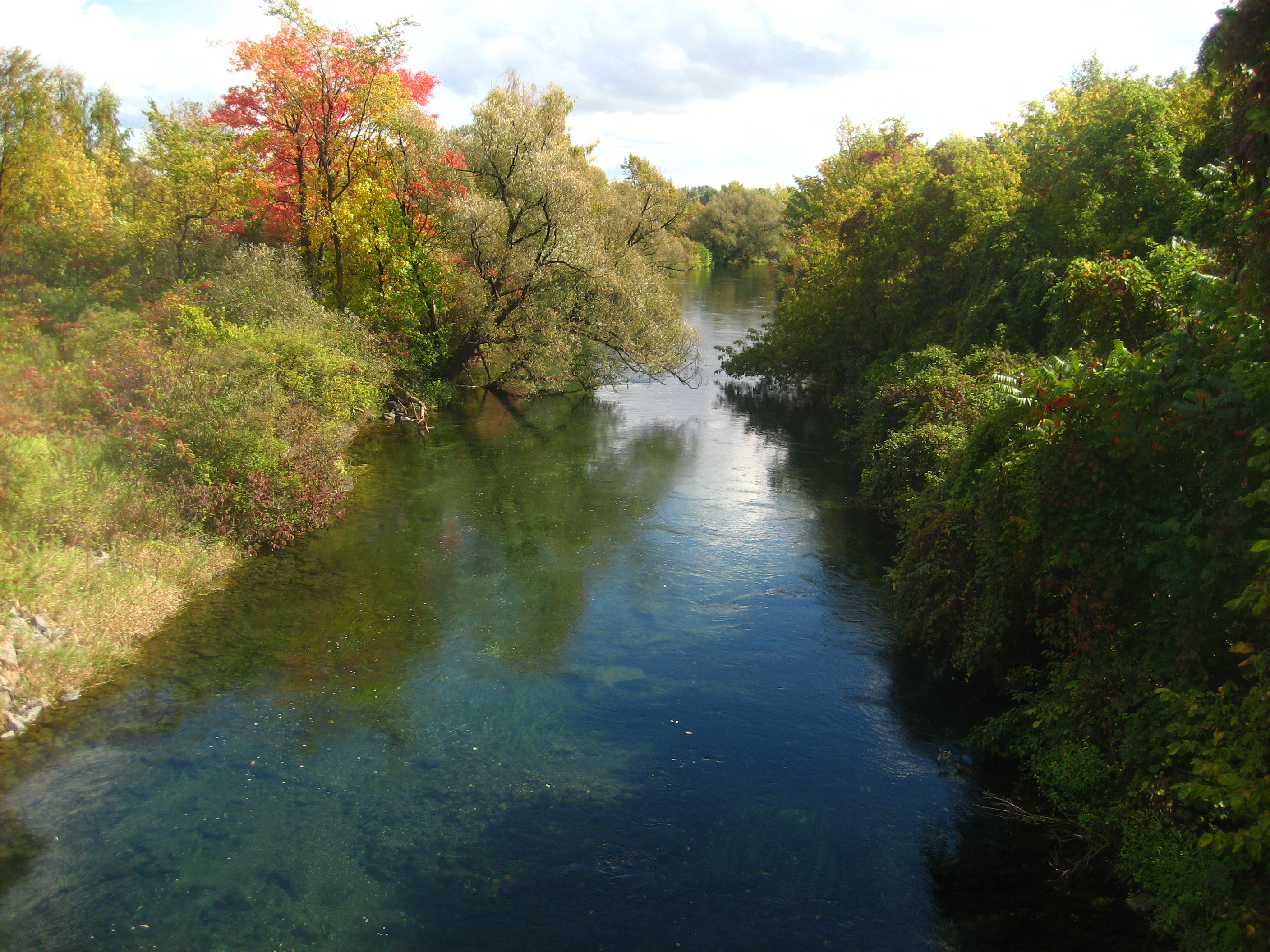 The Rivière Saint-Charles as seen looking south from the bridge at Rue Victoria and the Public Works Building, Valleyfield.